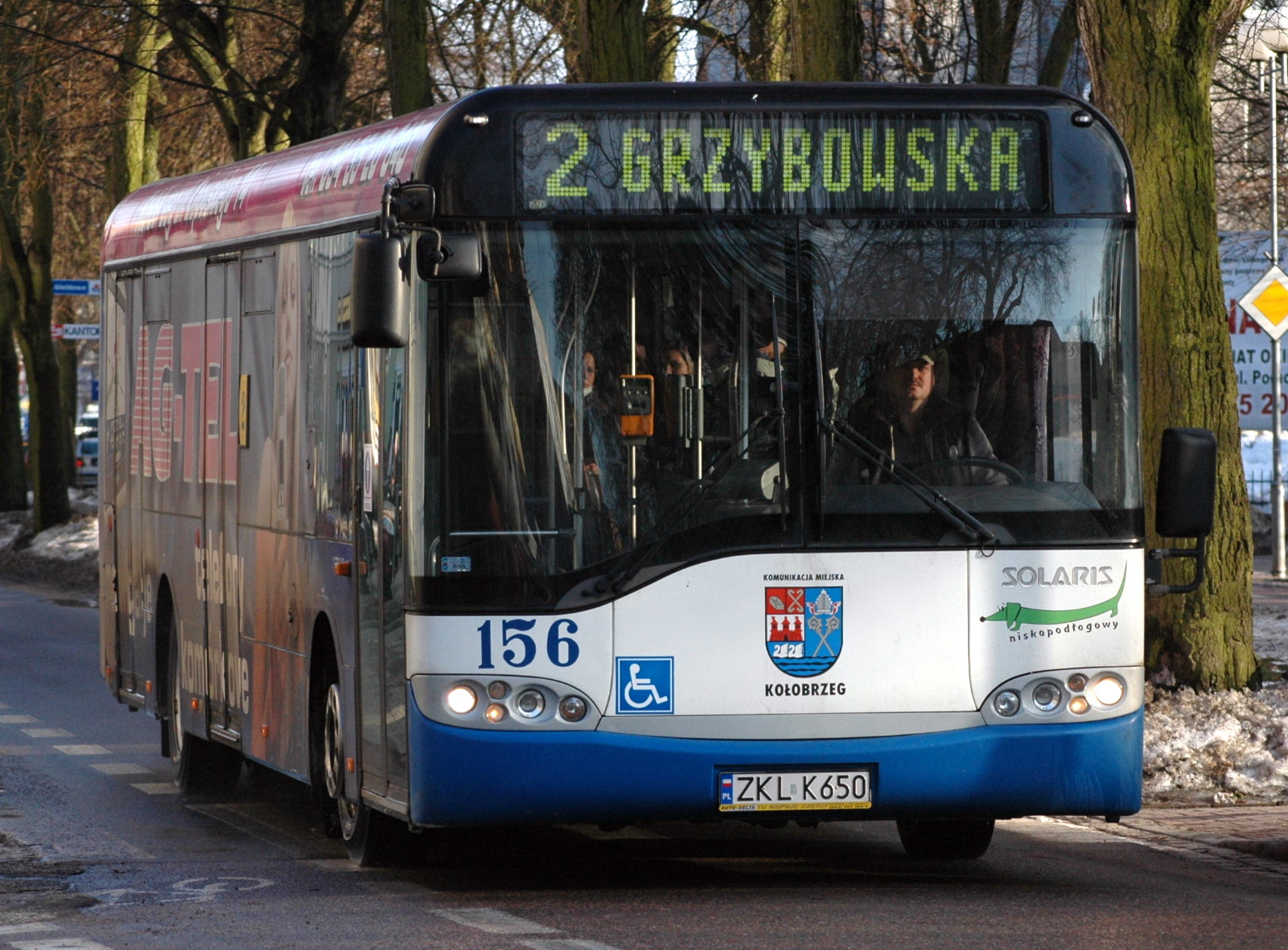 Solaris Urbino 12 bus (#156) in Kołobrzeg, Poland. Built 2002, Komunikacja Miejska w Kołobrzegu operator.